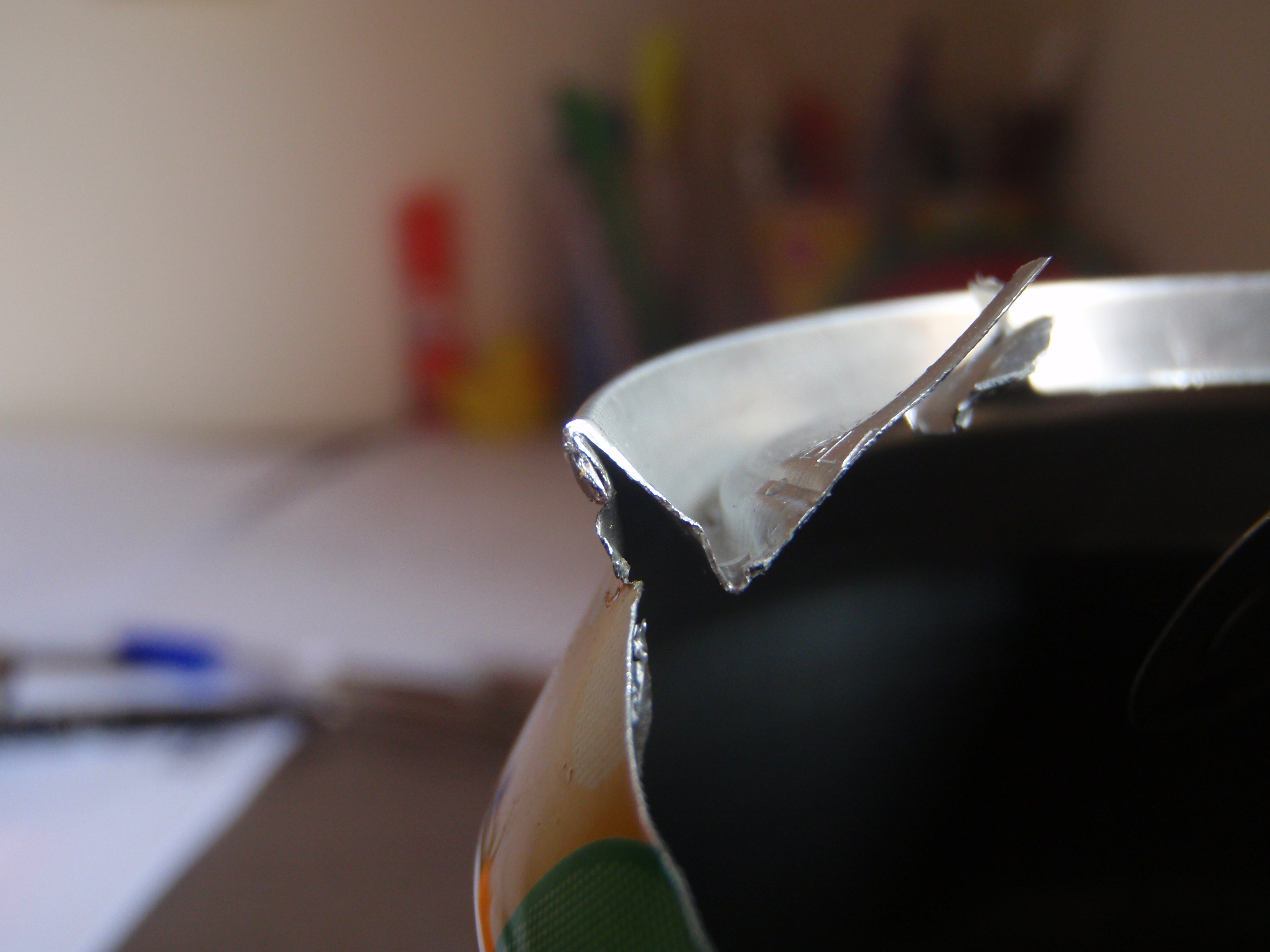 Circumferencial seam